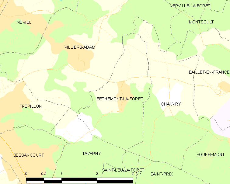 Map of French municipality Béthemont-la-Forêt